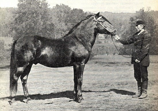 First known photograph of a named Finnish horse individual (the Finnhorse). One of the Finnhorse founding sires, Jaakko (Tt 118) photographed in 1882 in Moscow